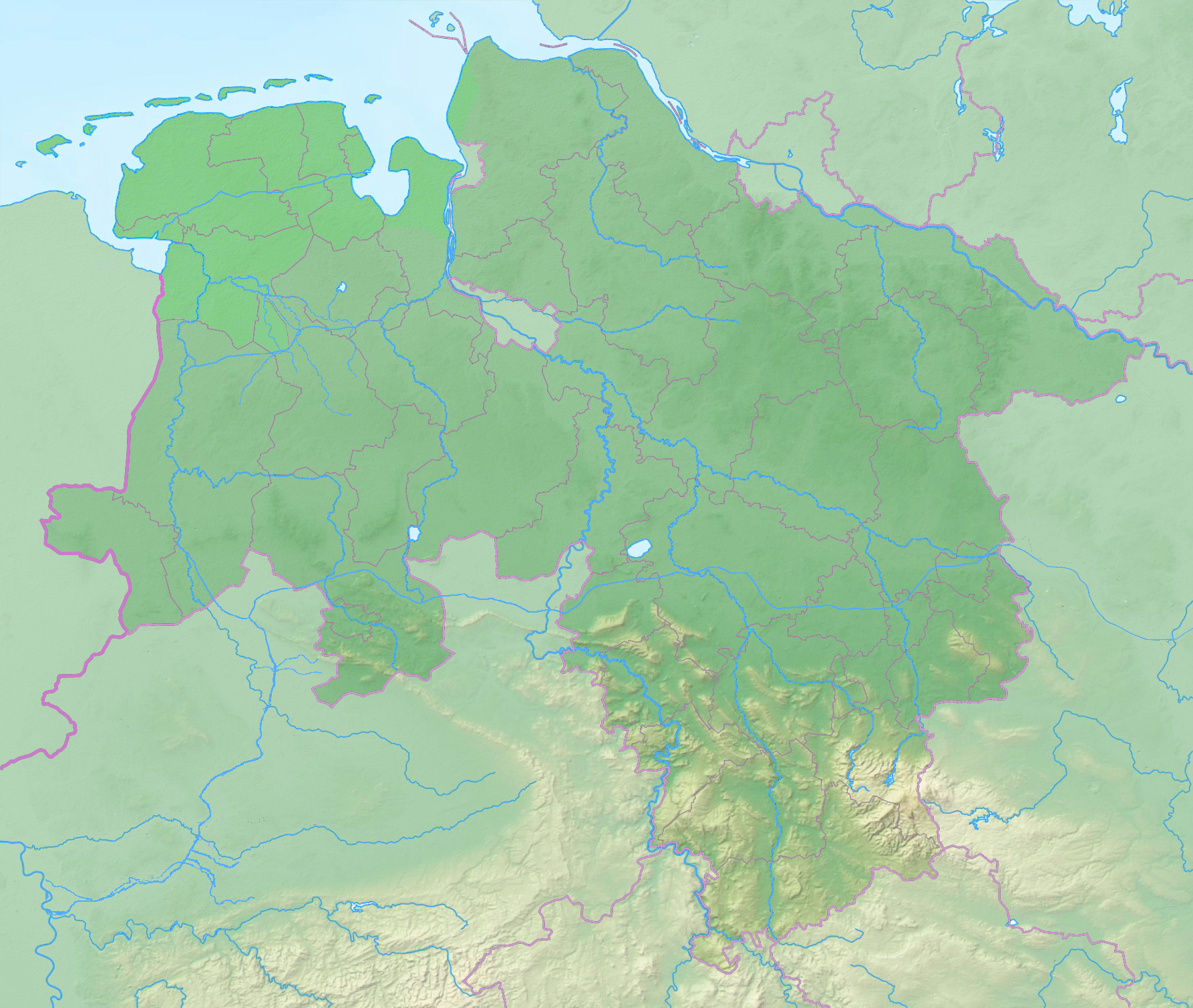 Physical Location map of Lower Saxony, Germany Equirectangular projection, N/S stretching 160 %. Geographic limits of the map: N: 54.0° N S: 51.2° N W: 6.5° E E: 11.8° E